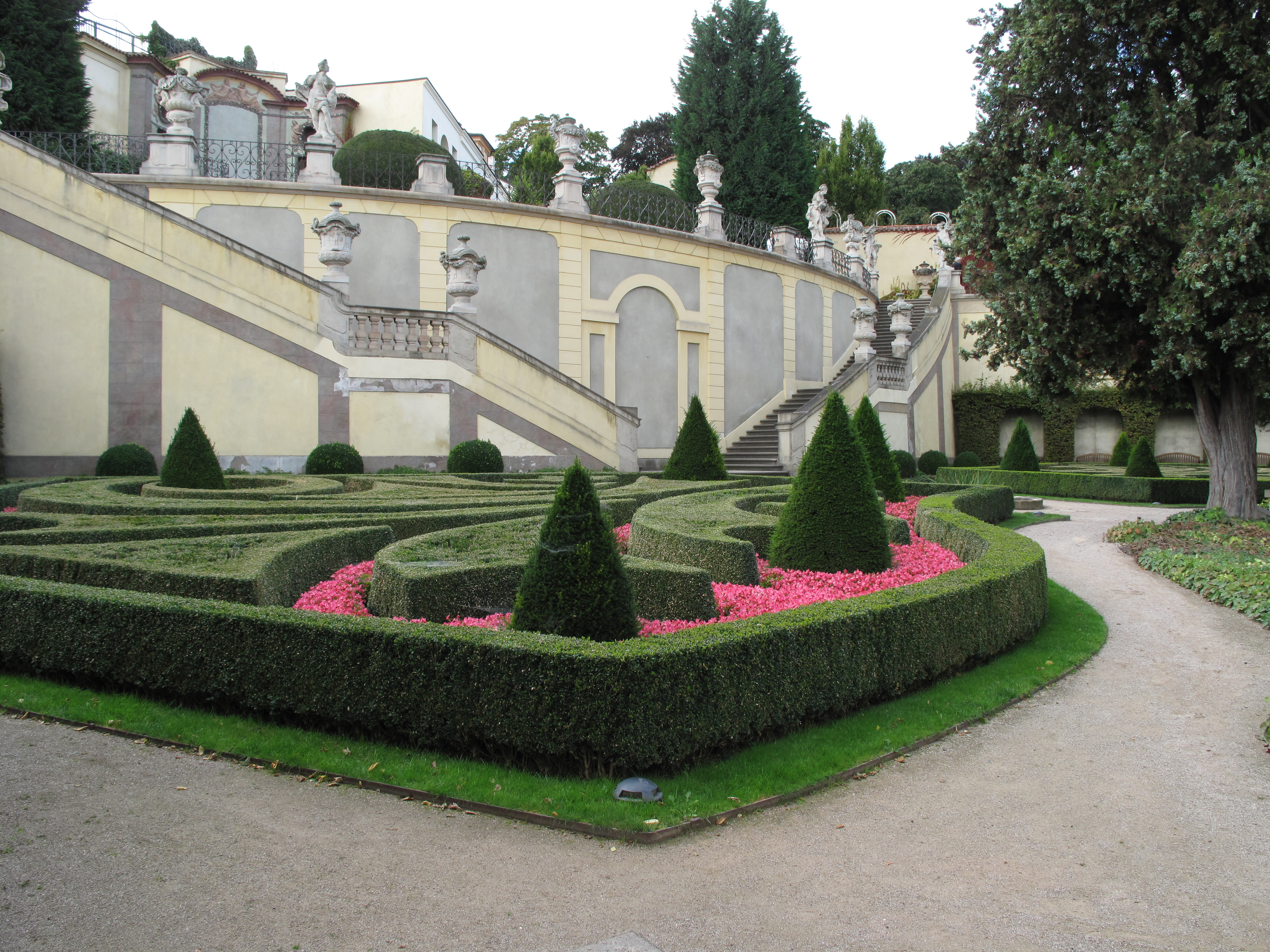 Vrtba Garden - different parts, Prague, Lesser Quarter, Czech Republic.